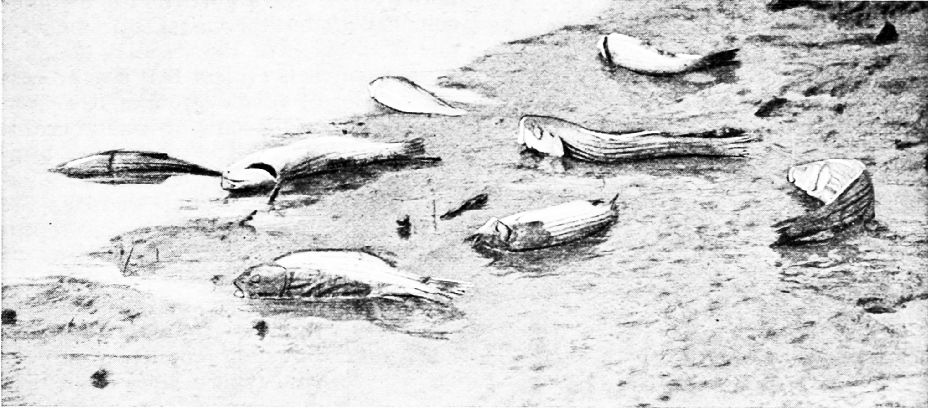 Fish that travel on land